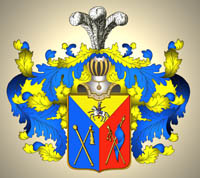 Coat of Arms of family